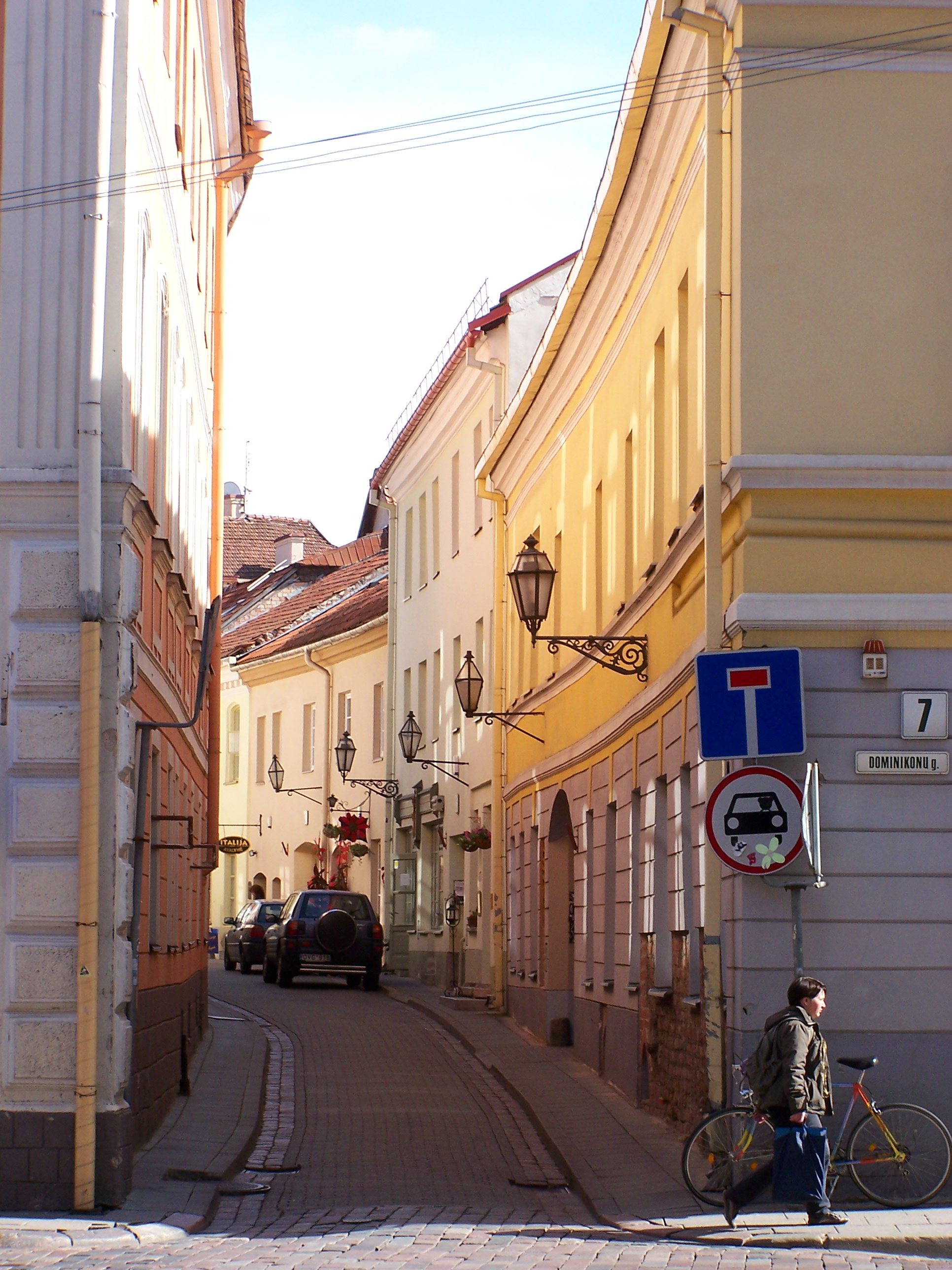 Śv. Ignoto Street in Vilnius (Lithuania).